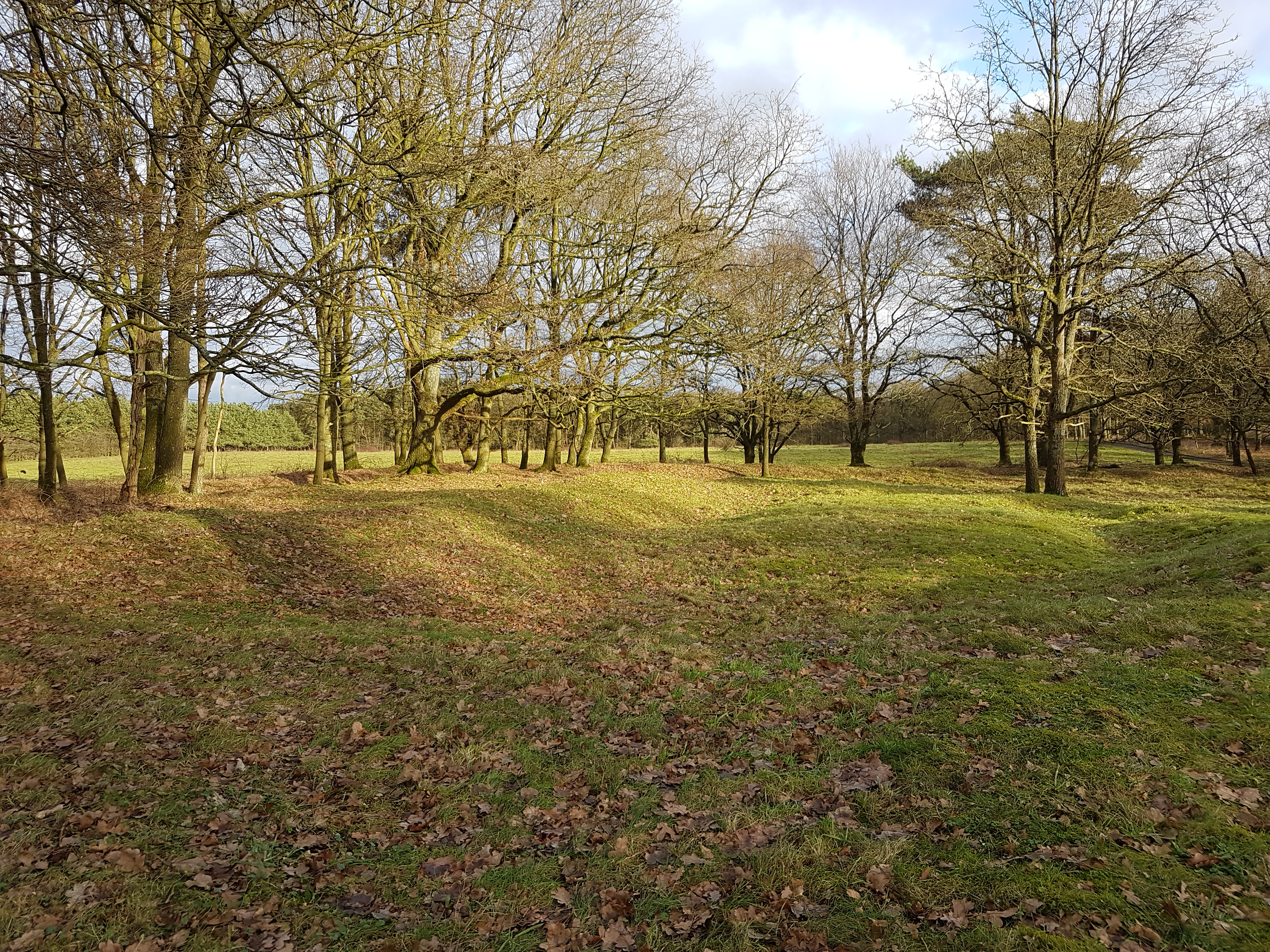 Visible remains of the position of the former church of Wolfheze.